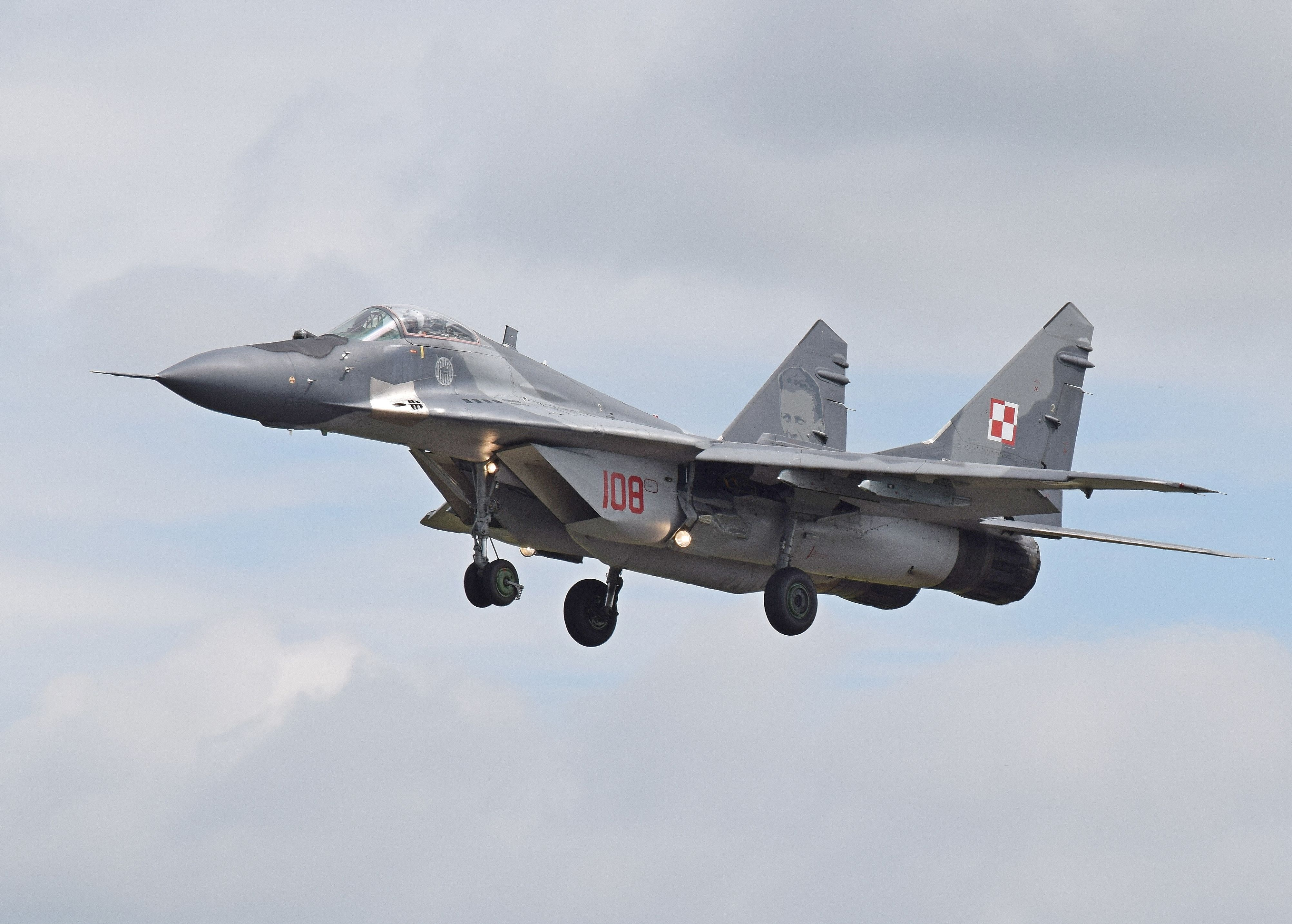 Mikoyan-Gurevitch MiG-29A Fulcrum (code 108) of the Polish Air Force arrives at the 2016 Royal International Air Tattoo, RAF Fairford, England. The portrait is named (on the other fin but invisible here) as 'kpt. pil. Ludwik Paszkiewicz 1907-1940'.